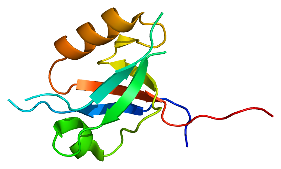 Structure of the MPDZ protein. Based on PyMOL rendering of PDB 2fcf.